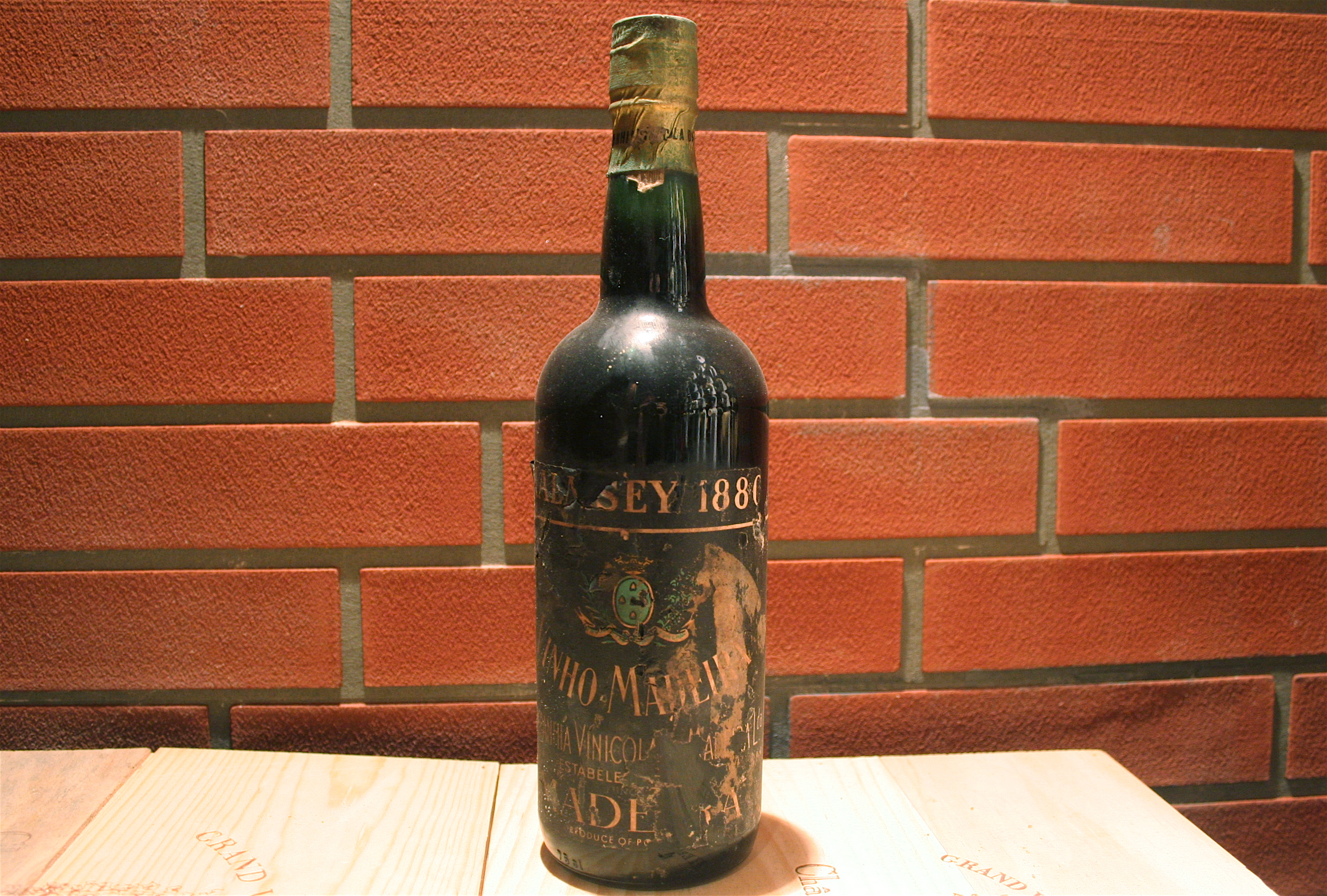 A bottle of 1880 Malmsey Madeira wine